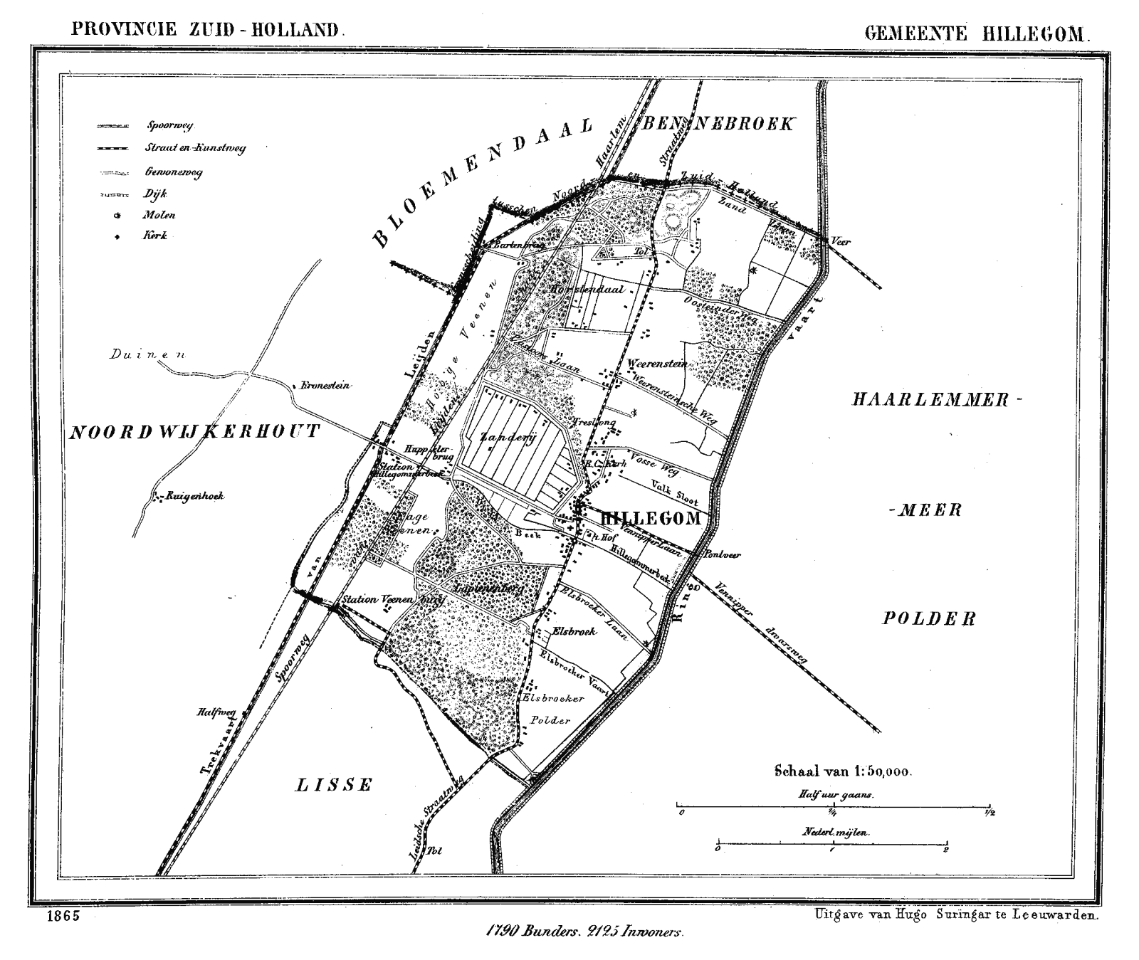 Historic map of Hillegom, the Netherlands